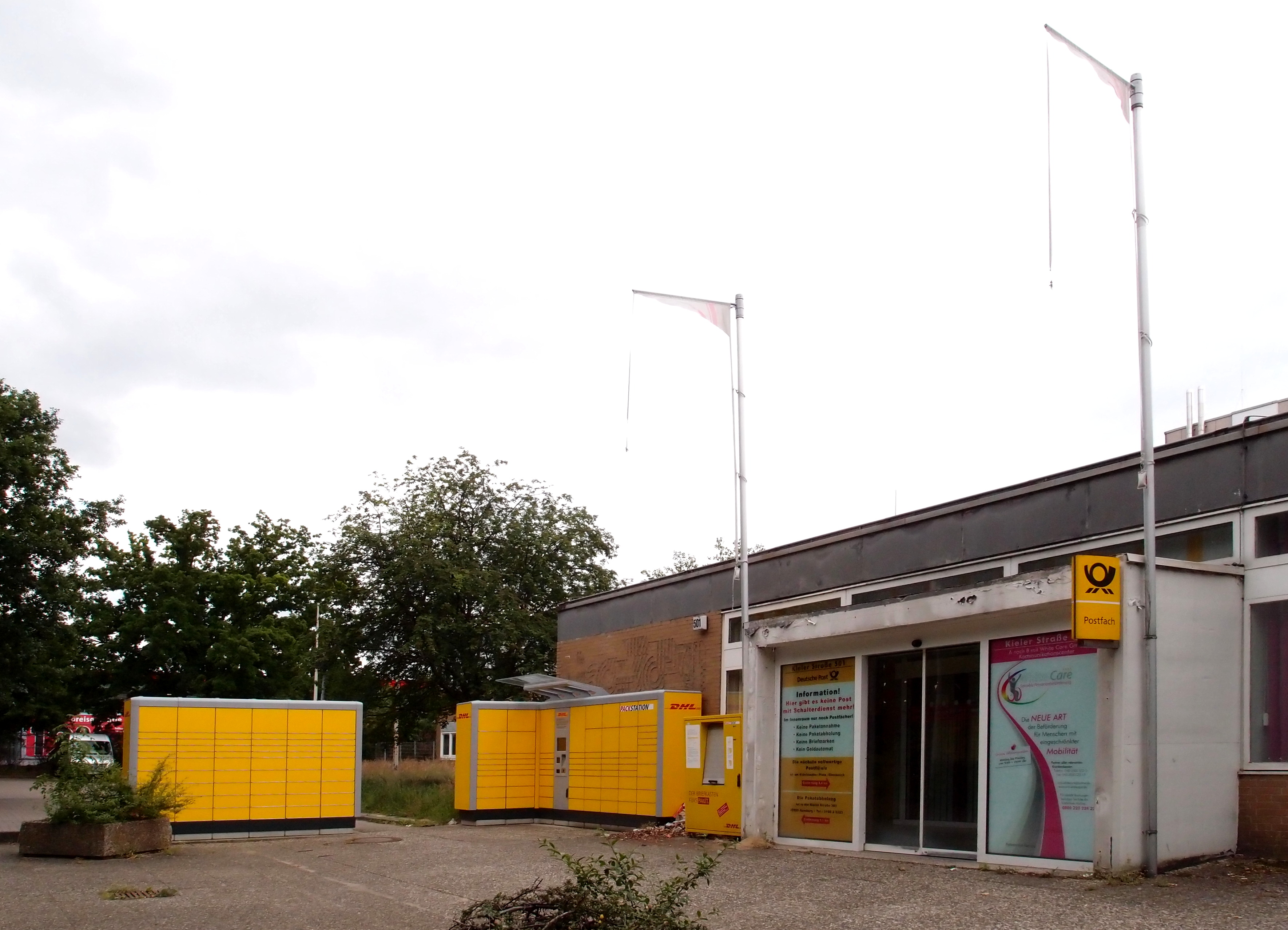 DHL Packstation and Paketbox machines, together with a mailbox (not visible on this picture), replace the old post office at Kieler Straße 501, Hamburg. The building is now occupied by a company that offers transportation services for disabled people and apparently cultivates a rather perfunctory approach to outward appearances.